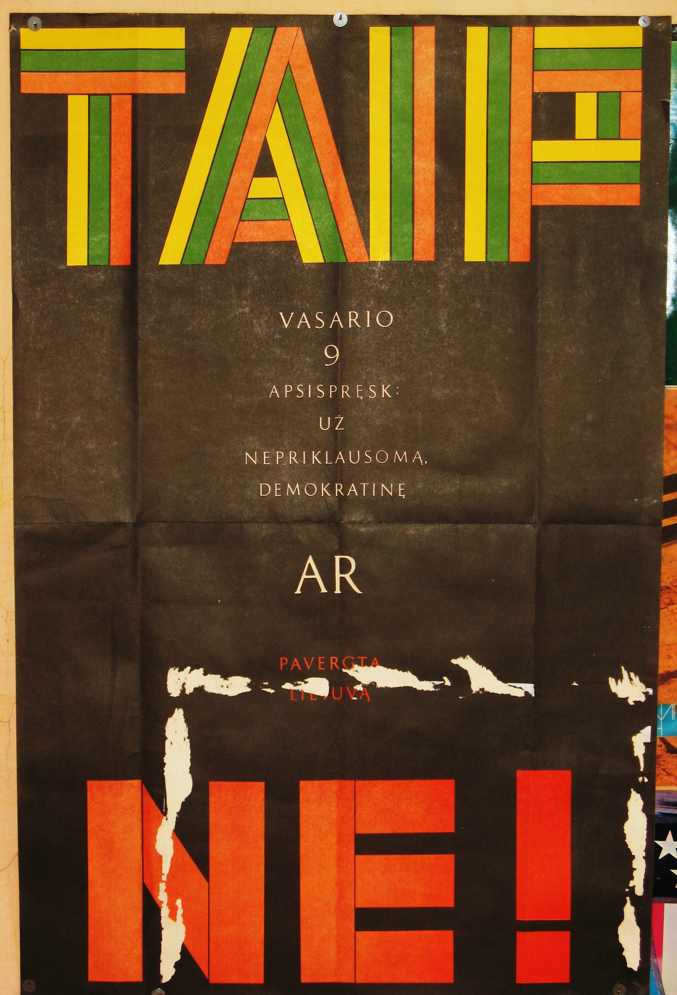 Taip Lietuva, Ne USSR. Lithuanian poster febr. 1990.